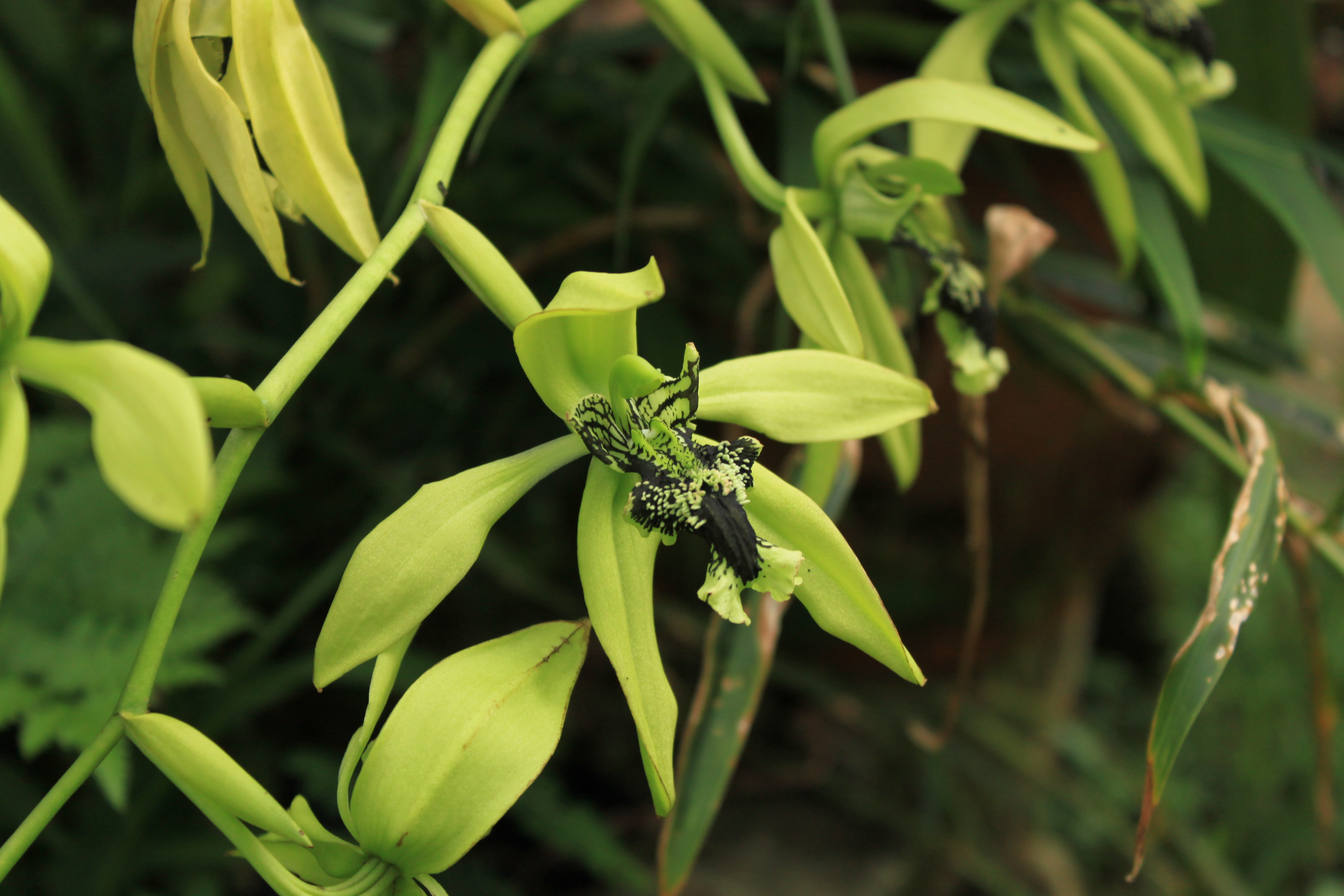 Coelogyne pandurata – Sarawak, Malaysian Borneo